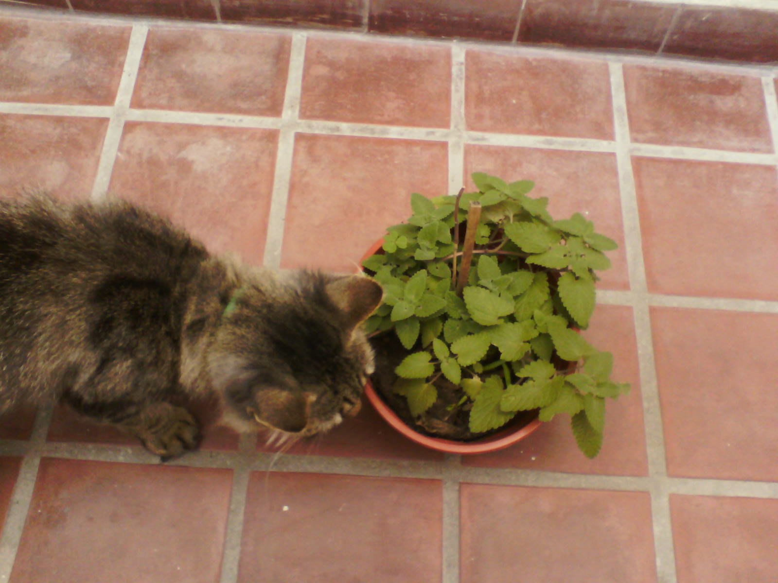 Nepeta cataria plant, and a cat.